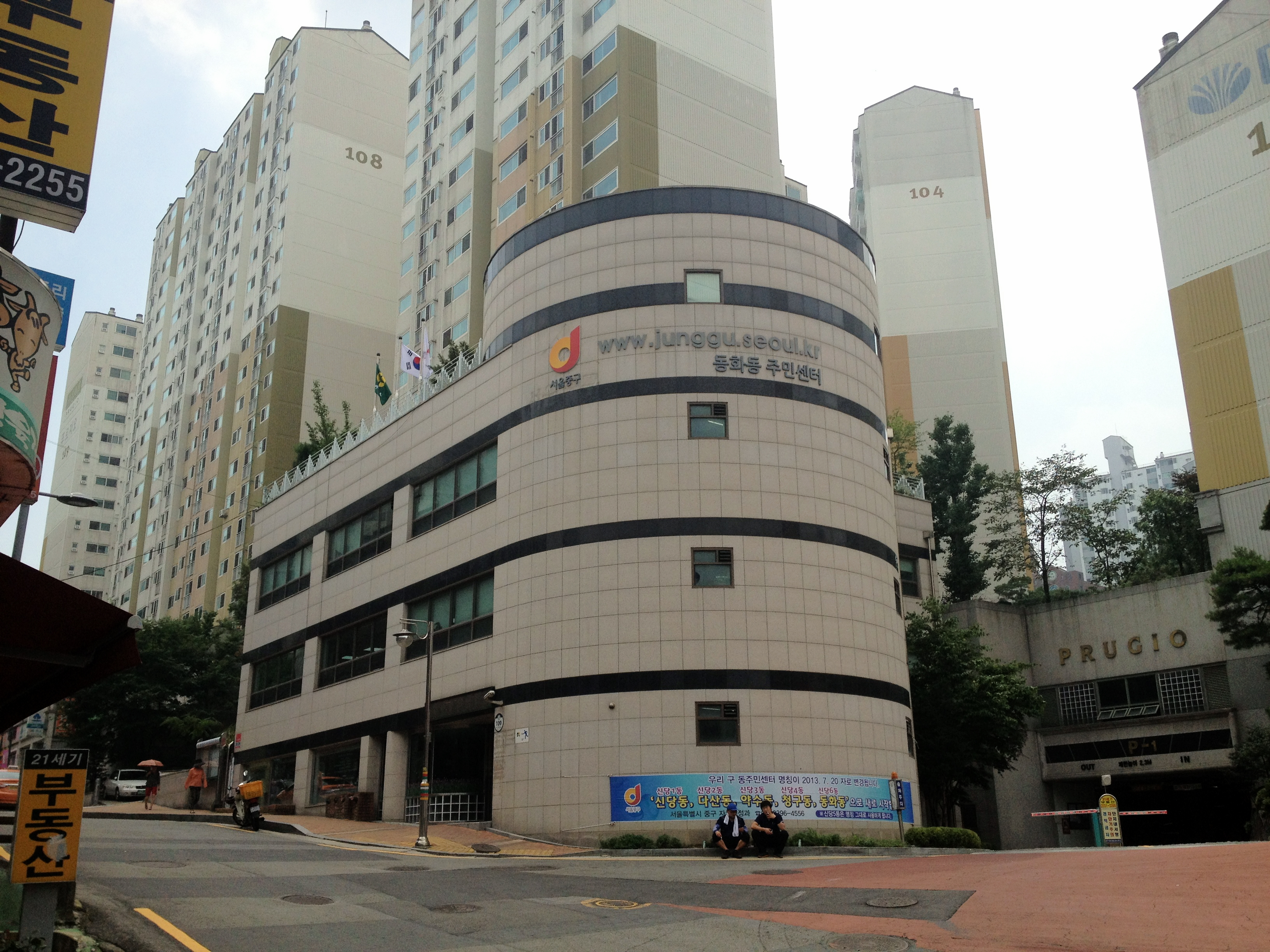 Donghwa-dong Community Service Center(Jung-gu)